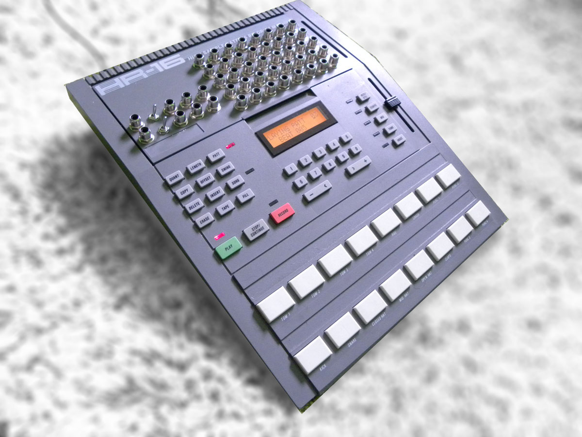 Alesis HR-16 circuit bent 07